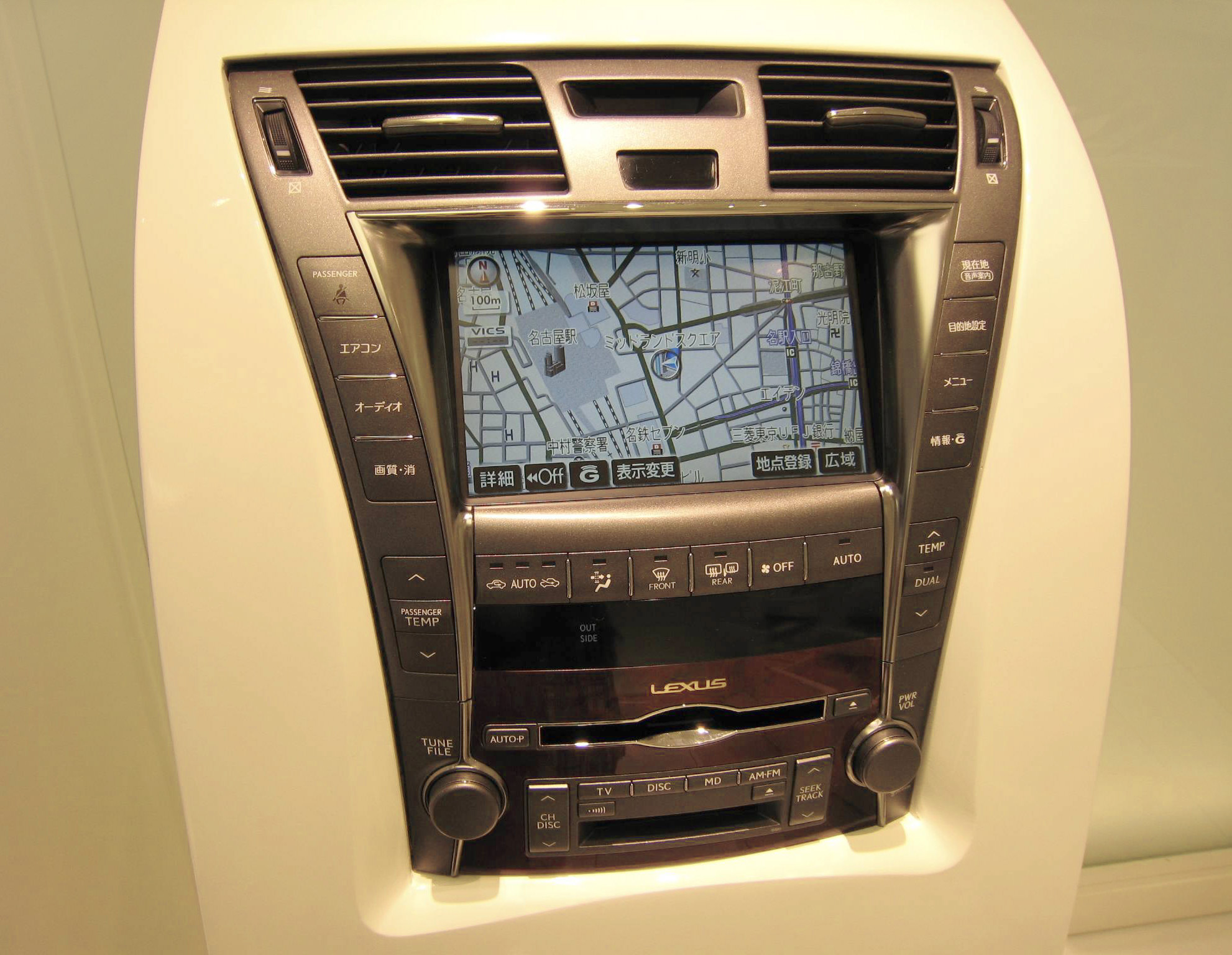 Lexus navigation used on the fourth generation LS